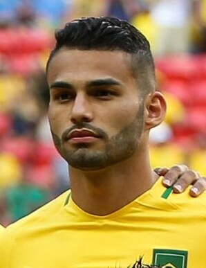 Brasília - Futebol masculino da seleção brasileira, deu o seu pontapé inicial na Olimpíada Rio 2016, em uma partida contra a África do Sul, no Estádio Mané Garrincha (Marcelo Camargo/Agência Brasil)